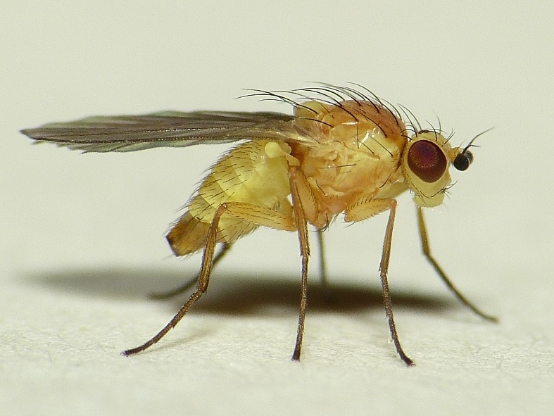 Phytomyza ranunculi, location: The Netherlands - Rhenen - Blauwe Kamer - Gelderland